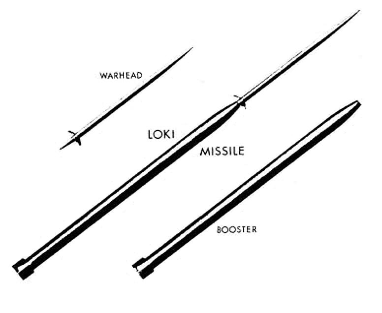 Redstone Arsenal was directed to study a solid propellant LOKI, an antiaircraft, free-flight rocket approved for development by DA in December 47.